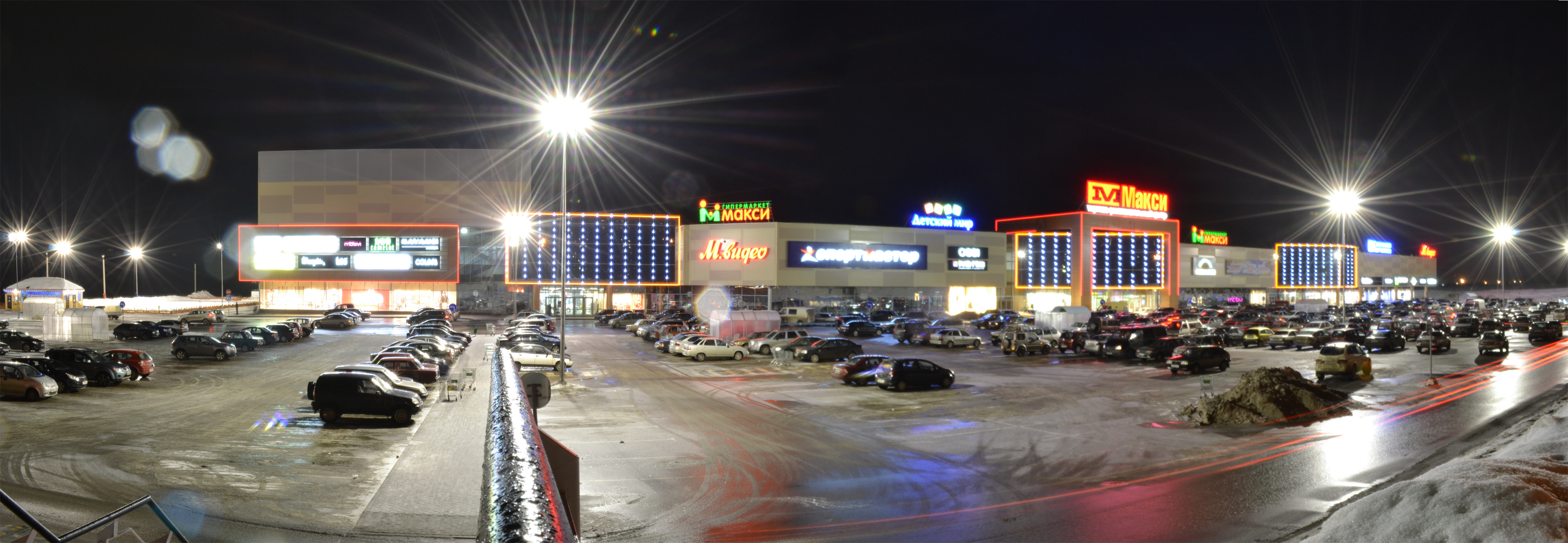 Shopping mall in Syktyvkar city